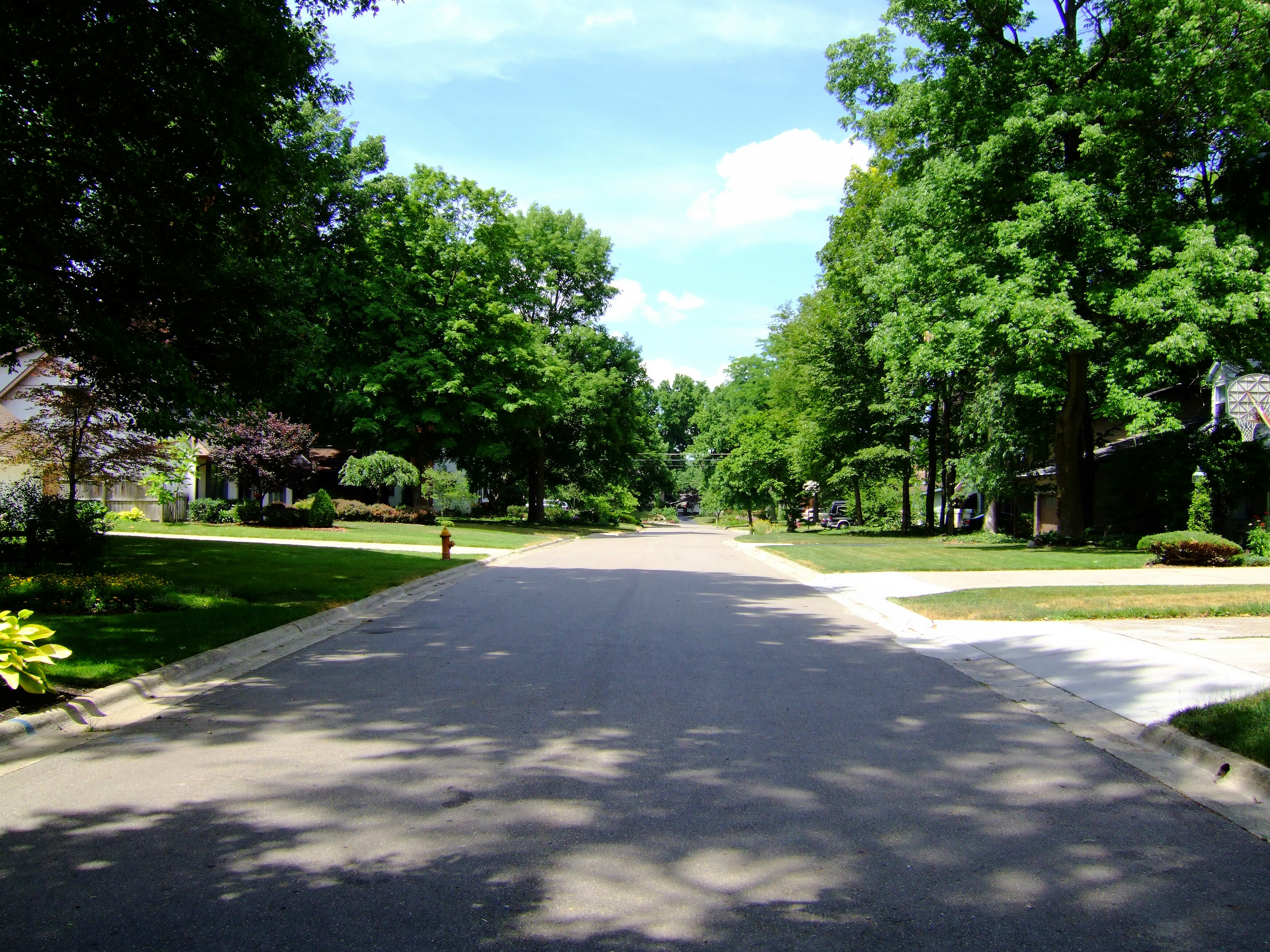 A neighborhood street in the Olentangy West neighborhood of Columbus, Ohio.